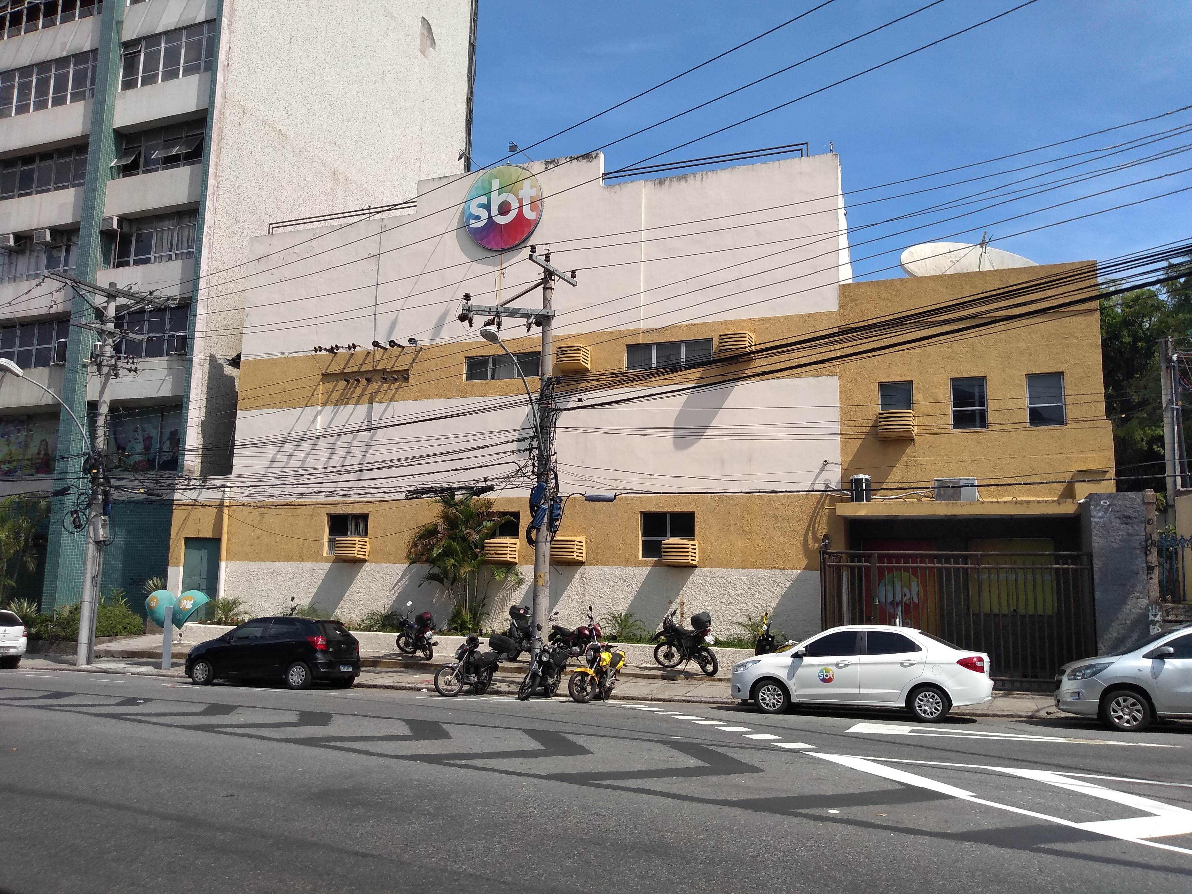 Headquarters of SBT - Rio de Janeiro (ZYB 512), channel 11 of Rio de Janeiro. It was founded by businessman Silvio Santos in 14 May 1976 as TV Studios (TVS).